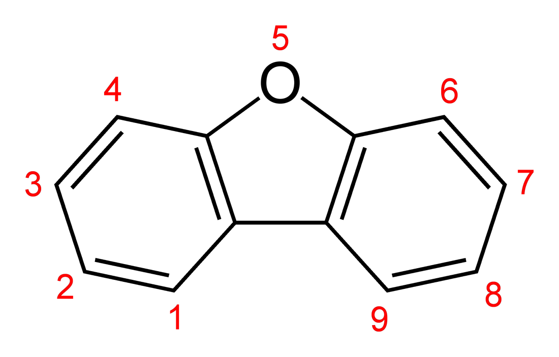 Skeletal formula and substituent numbering scheme of dibenzofuran